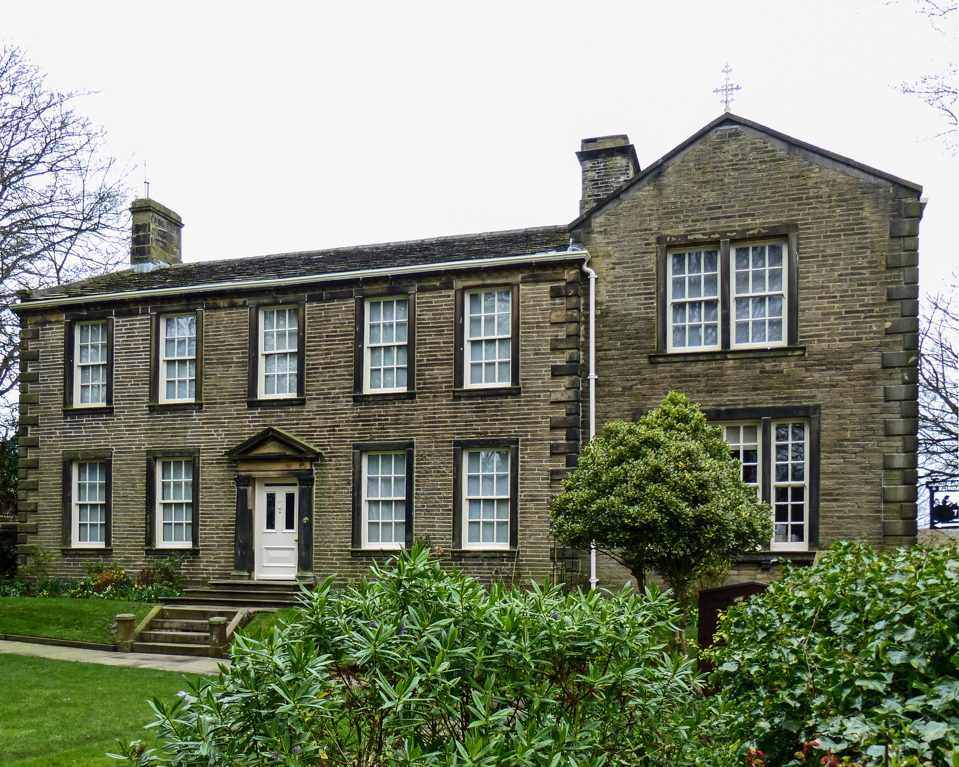 Haworth Parsonage